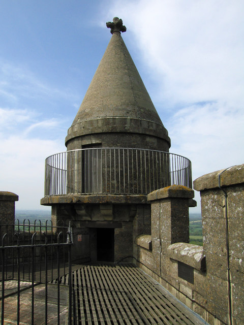 The top of Alfred's Tower Of the 3 round corners of this tower only one has a staircase and this is its exit to the roof.